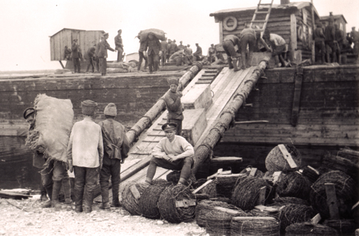 Canadian_Siberian_Expeditionary_Force (seated)